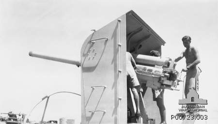 QF 4 inch Mk XIX gun and crew on the forecastle of HMAS Pirie.